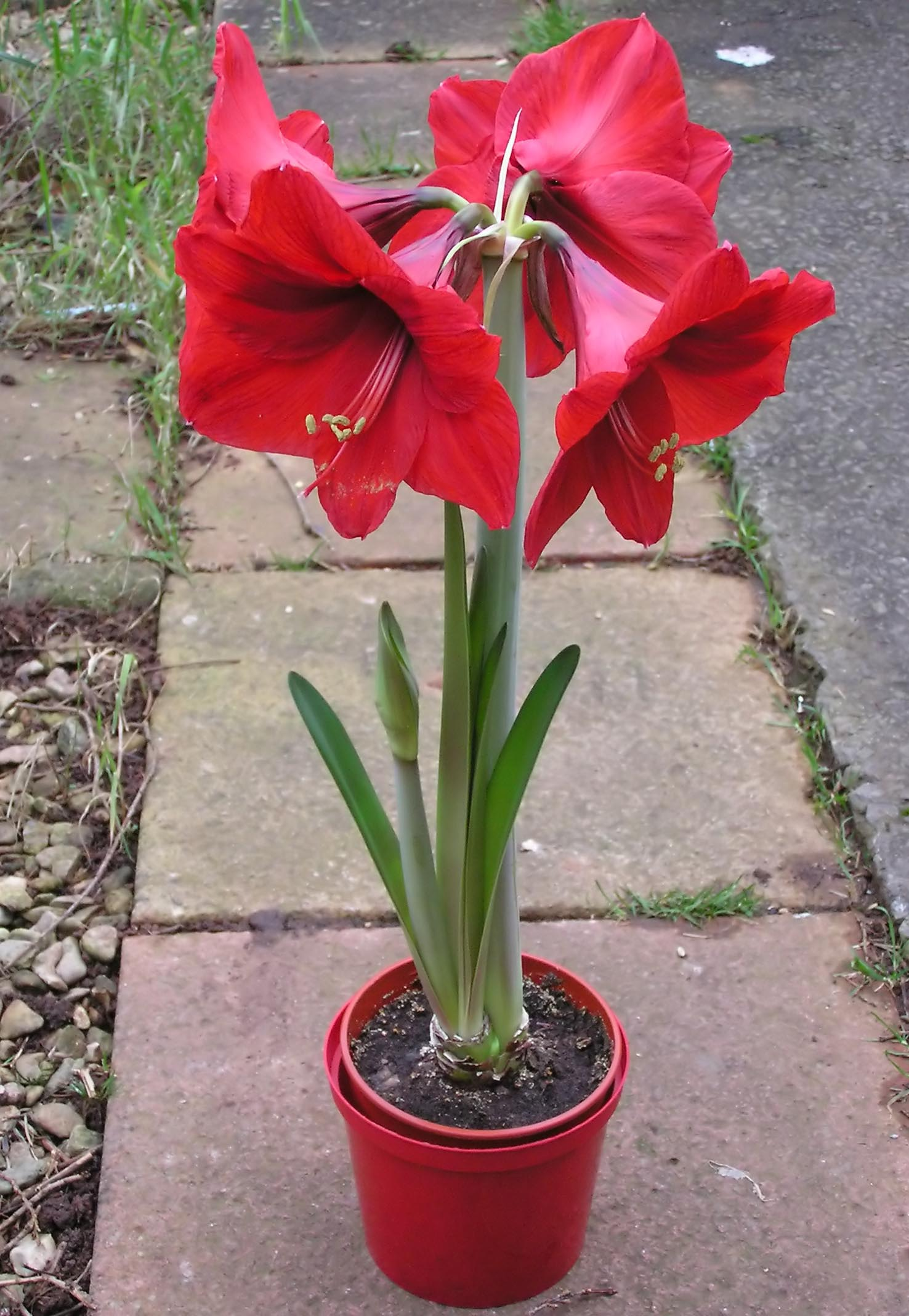 Hippeastrum with four flowers, Bristol, England. Taken by Adrian Pingstone in January 2005 and released to the public domain. This work has been released into the public domain by its author, Arpingstone at the English Wikipedia project. This applies worldwide. In case this is not legally possible: Arpingstone grants anyone the right to use this work for any purpose, without any conditions, unless such conditions are required by law.